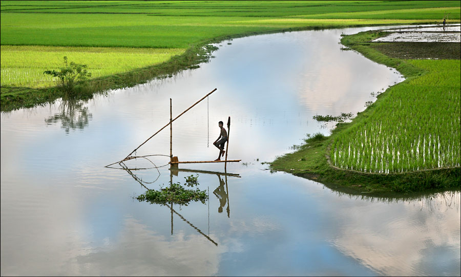 Bangladesh, 2006 Fishing